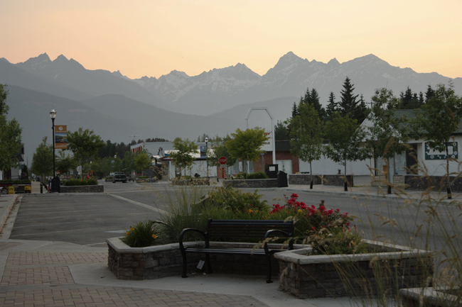 Valemount, British Columbia, looking west on 5th avenue. Photo taken July 2012